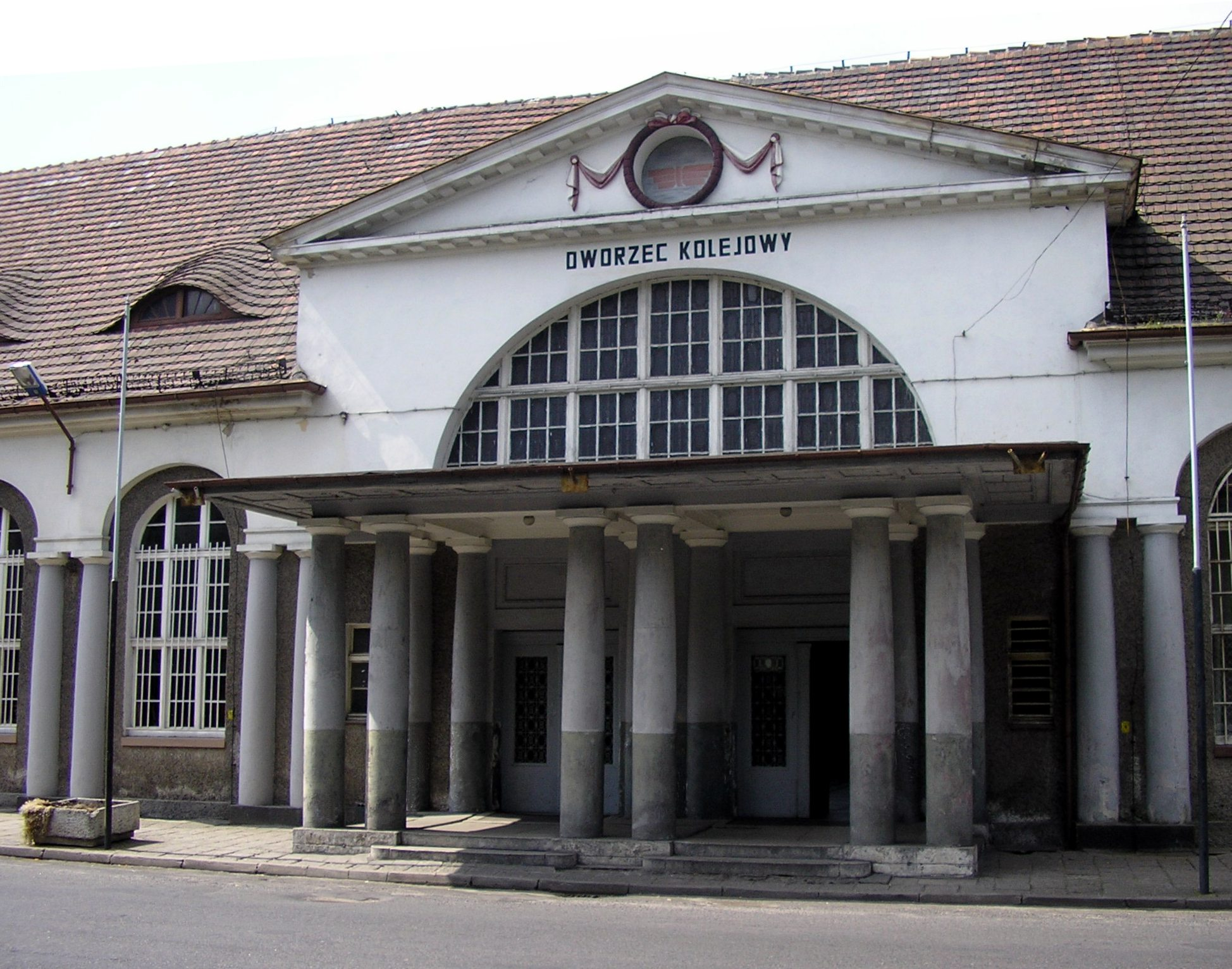 Railway station in Żagań (Poland.